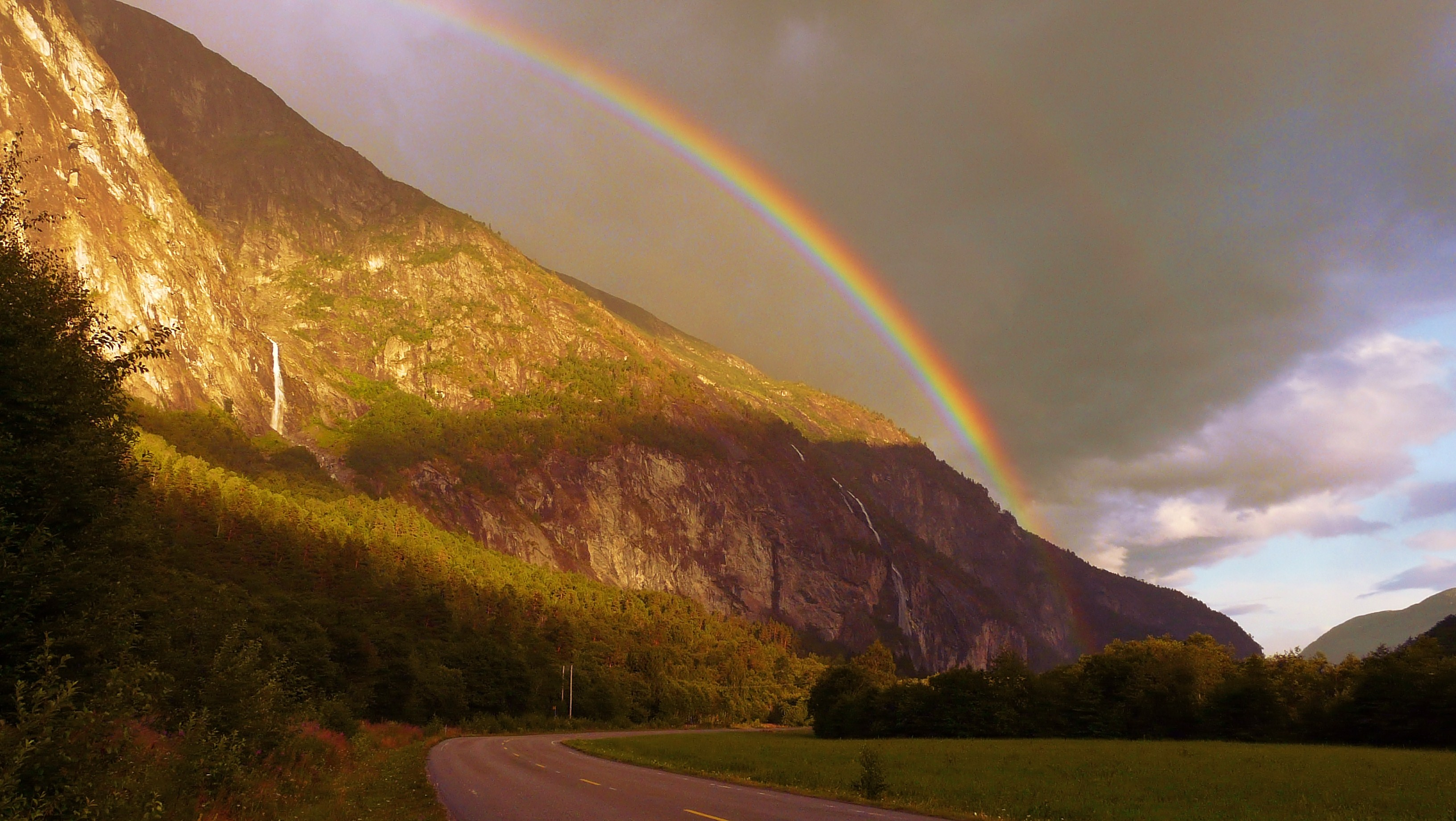 A view southwards to Romsdalen by the E136 road in rainy evening in 2008 August.